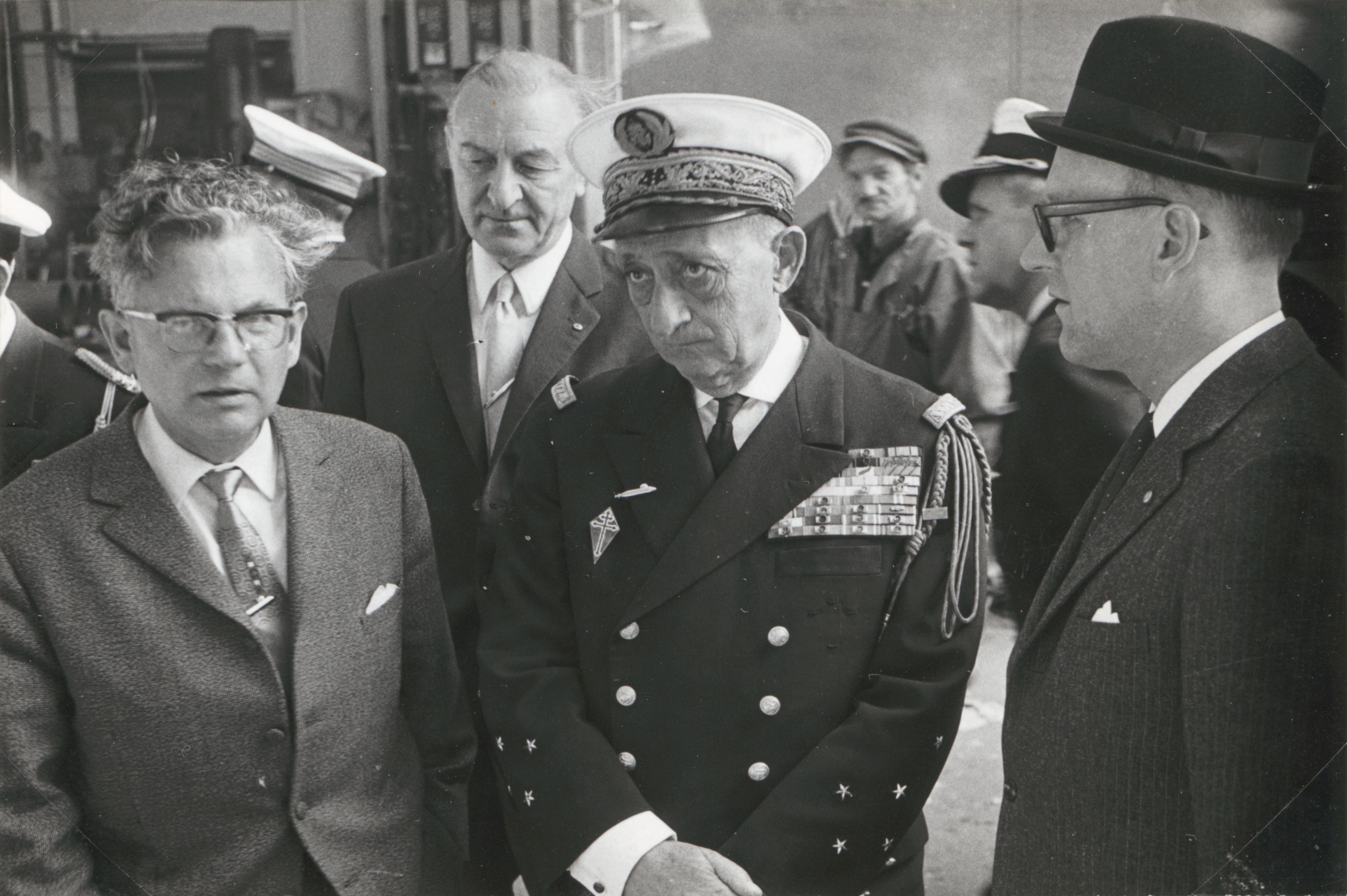 French visit. Senior Engineer Sven Rahmberg explains (in French?) to Admiral Georges Cabanier how to launch the submarine HMS Sjöormen.